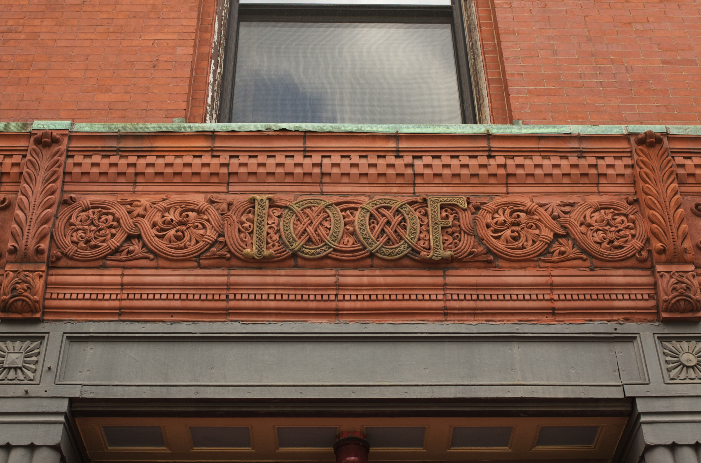 IOOF detail on the front of 536 Massachusetts Avenue, Cambridge, Massachusetts. - Independent Order of Odd Fellows